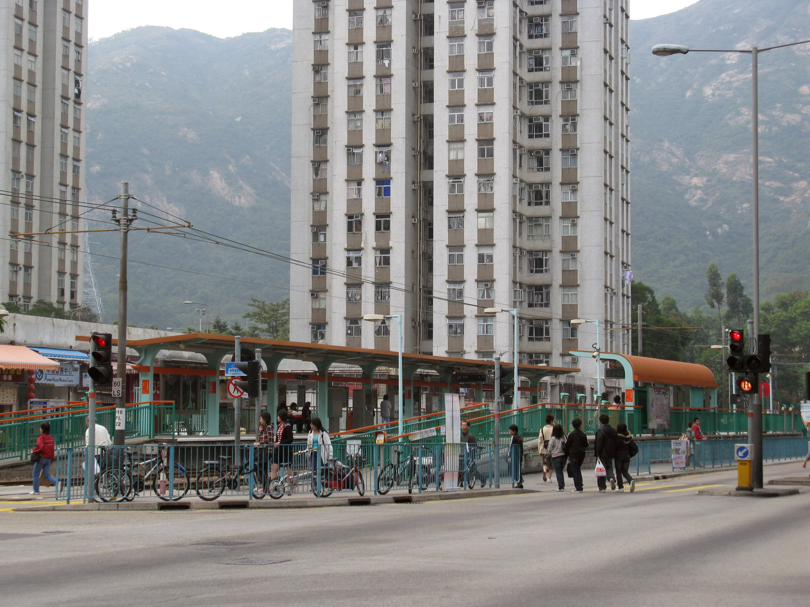 輕鐵 美樂站 Melody Garden Stop, Light Rail